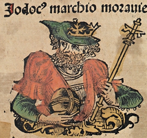 Woodcut from the Nuremberg Chronicle (Latin edition in Sao Paulo)